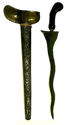 Helfferich collection in the East Asia Institute of Ludwigshafen in Germany